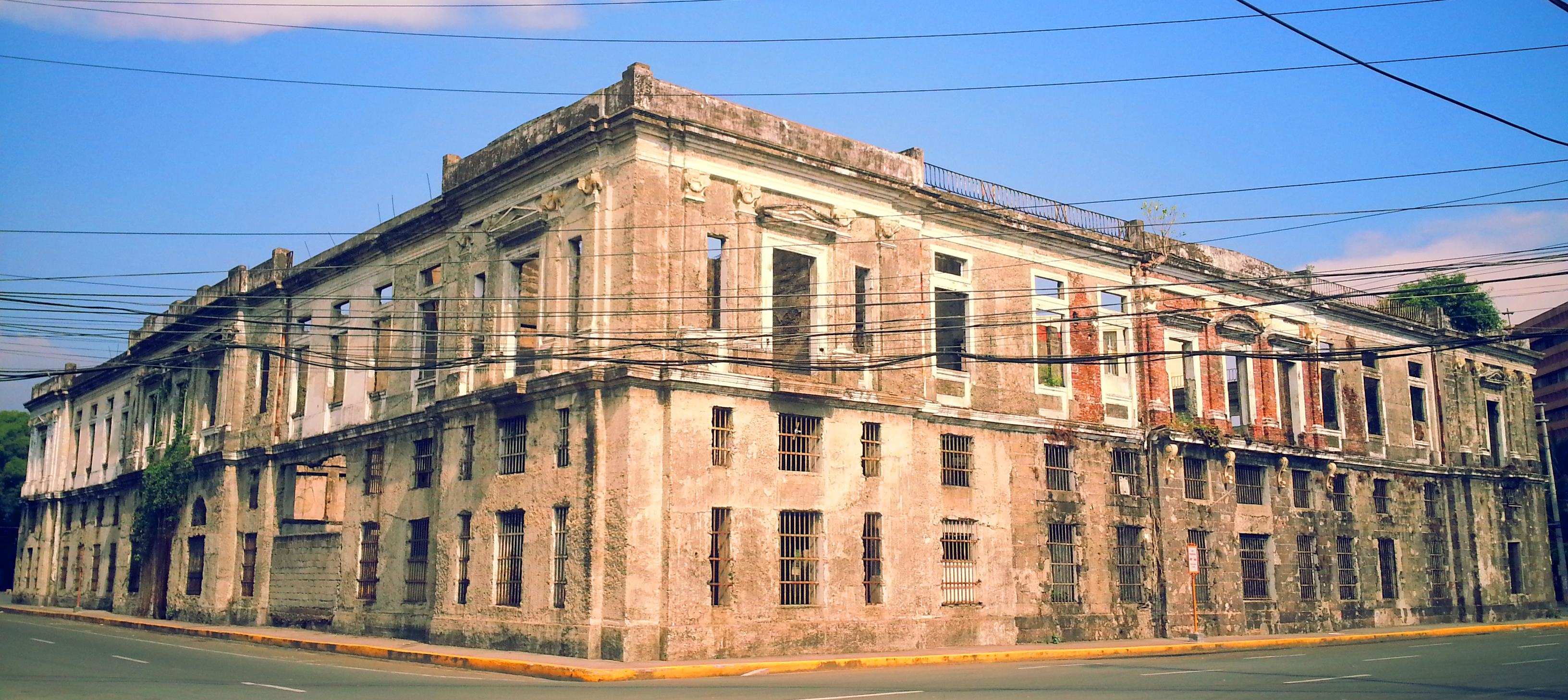 Aduana Building in Intramuros facing Soriano (Aduana) Street